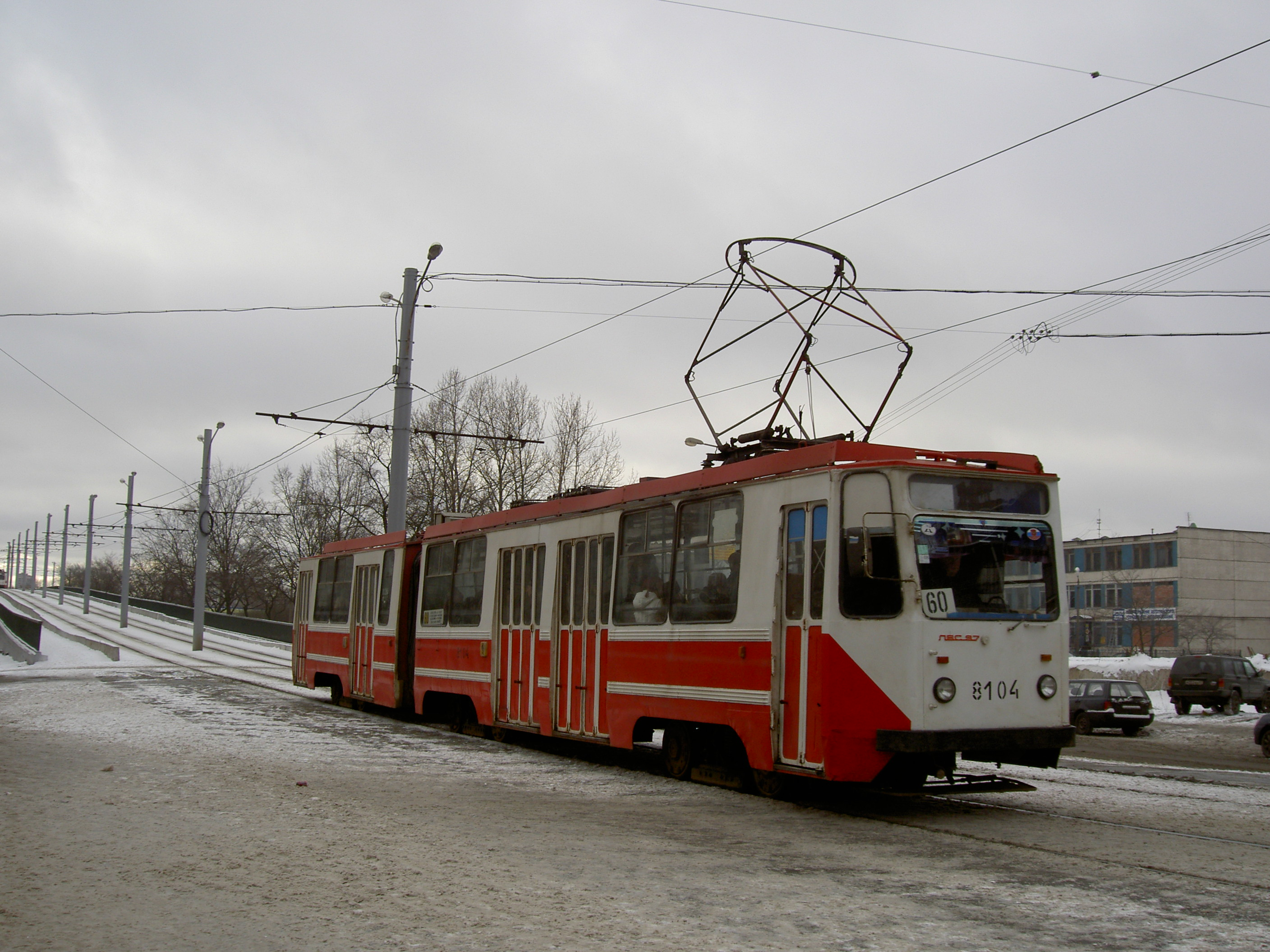 LVS-97 tram at Kronshtadskaya street in Saint Petersburg